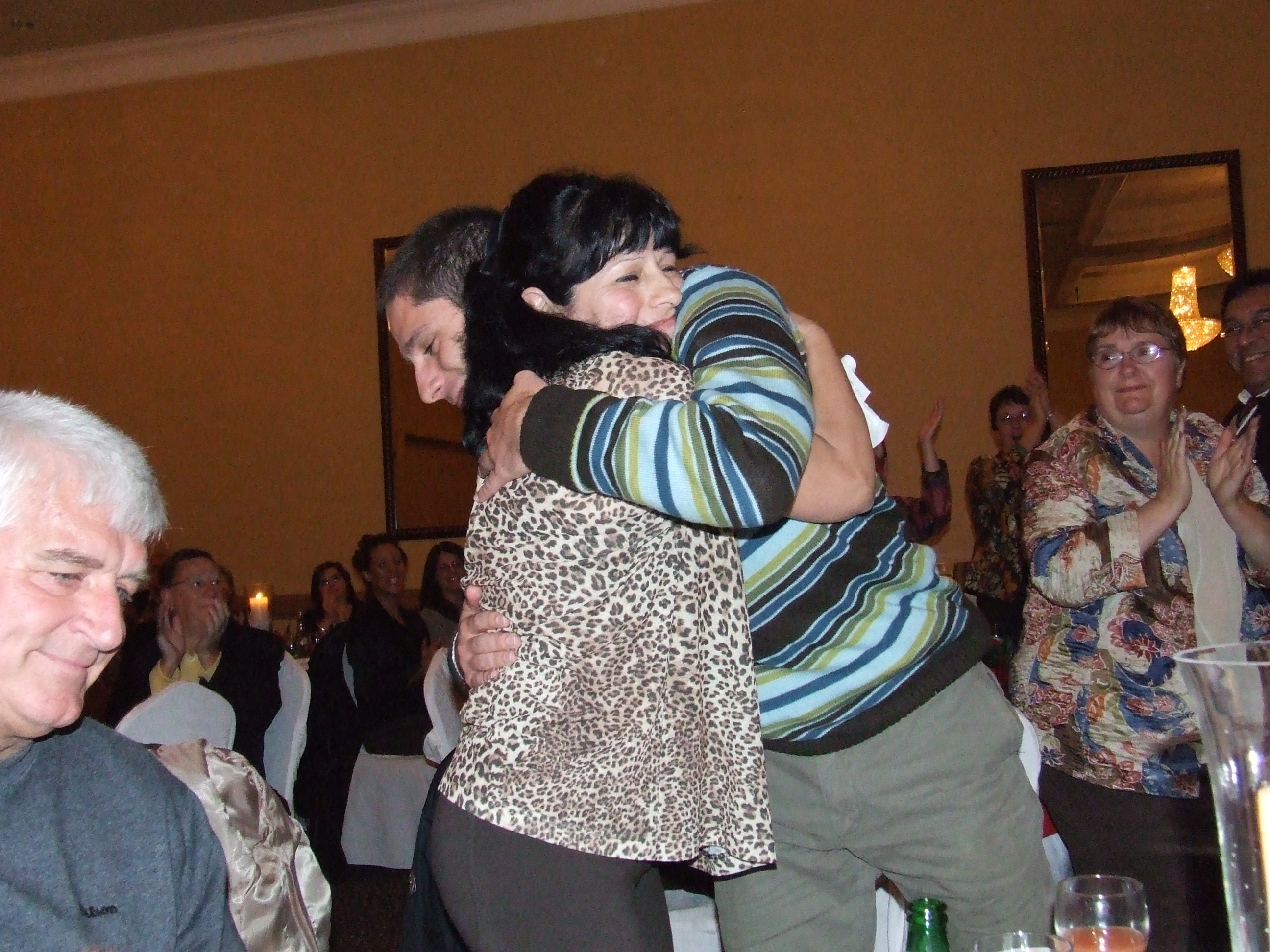 Mara Markovic Siladji receive congratulation from her son David and husband Miklos for Woman of the Year Award